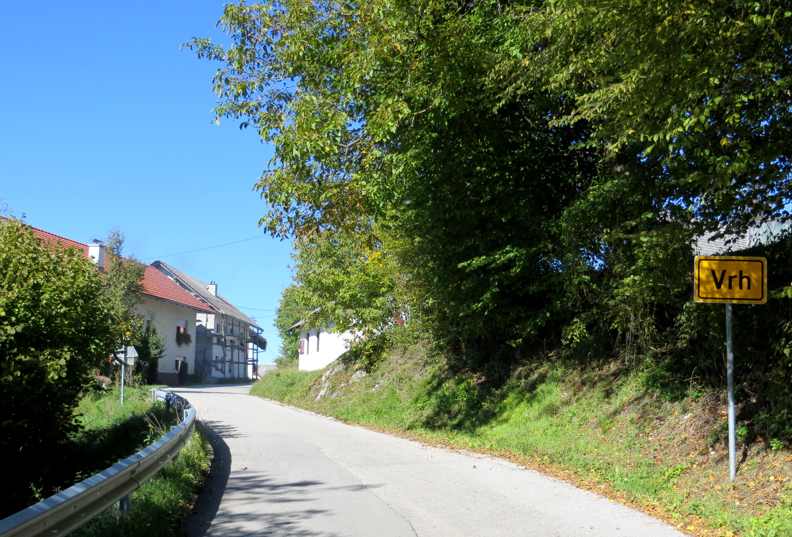 Vrh pri Višnji Gori, Municipality of Ivančna Gorica, Slovenia